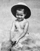 Nancy Kwan bathing at age two